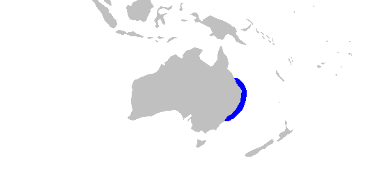 Range of the estuary stingray (Dasyatis fluviorum), based on Last & Stevens (2009).